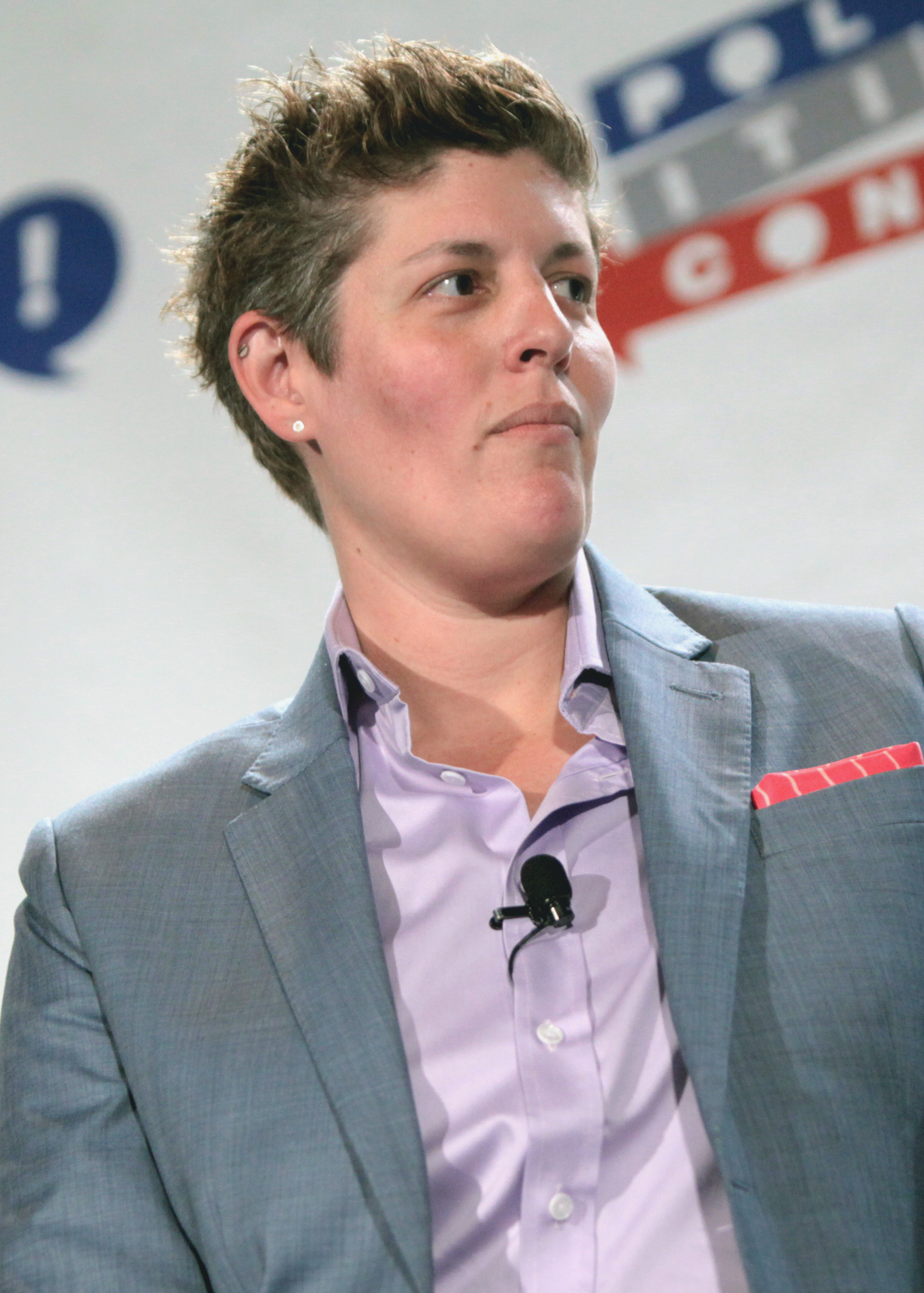 Sally Kohn speaking at Politicon in Pasadena, California.